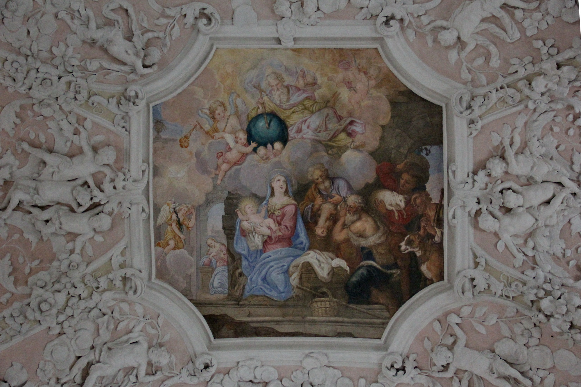 Church of Gartlberg Native nameWallfahrtskirche GartlbergLocationPfarrkirchen, Lower Bavaria, GermanyCoordinates48° 26′ 09.96″ N, 12° 56′ 33″ E Authority control : Q1802030 institution QS:P195,Q1802030